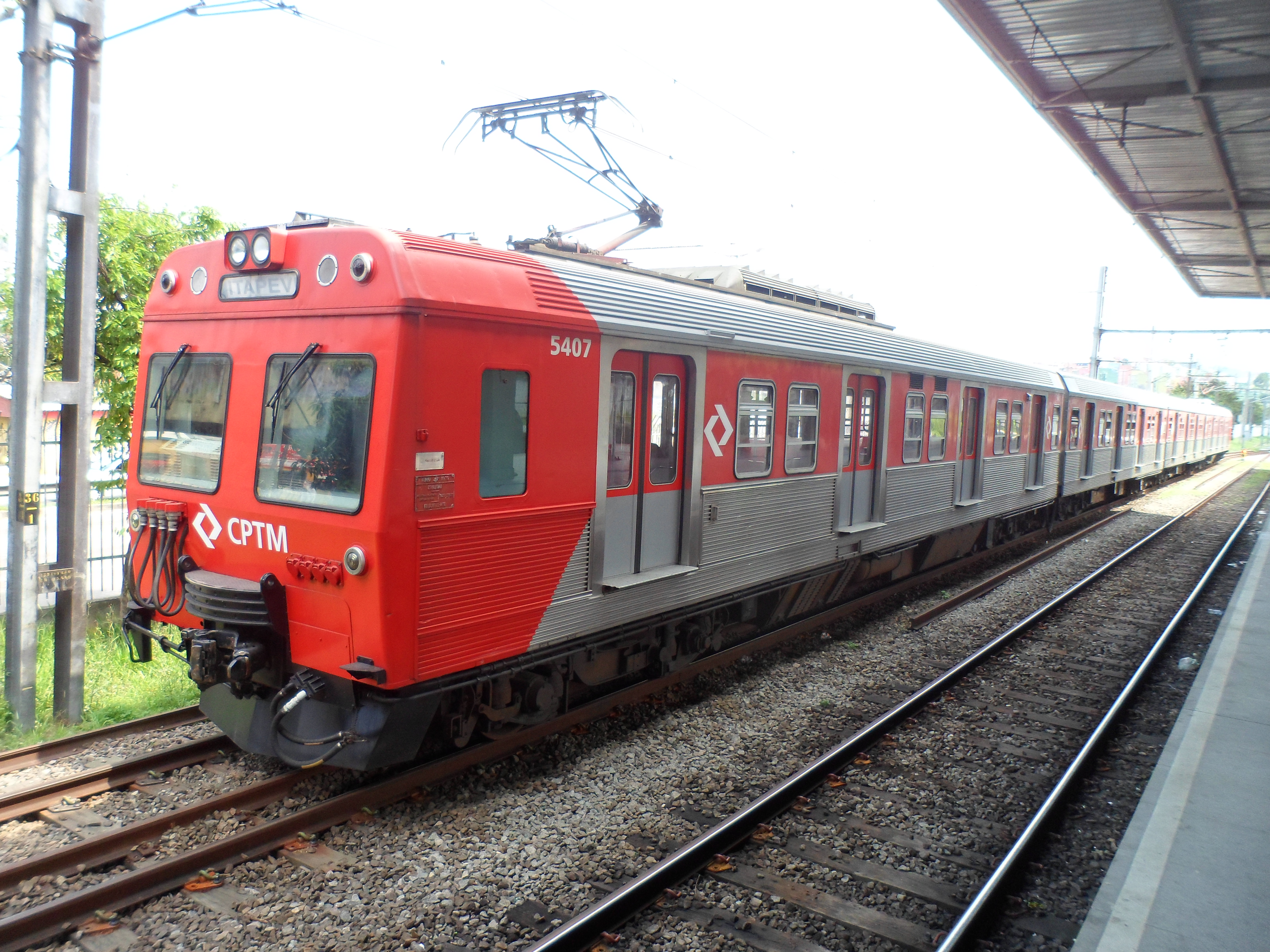 CPTM 5400 (previously 5000) series EMU (train code A008, previously O008) in Itapevi Station, of Line 8-Diamond. October 2016.